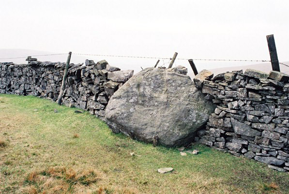 The County Stone. See 54384. Here the photographer is in Yorkshire. An unseen wall at a sharp angle runs up on the far side, dividing Lancashire (far left) from Westmorland.